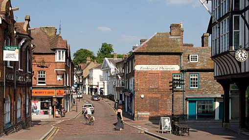 Tring High Street Author Robert stainforth